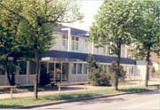 Publishing house